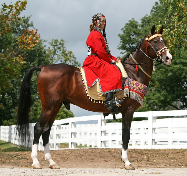 Photo by Heather Abounader